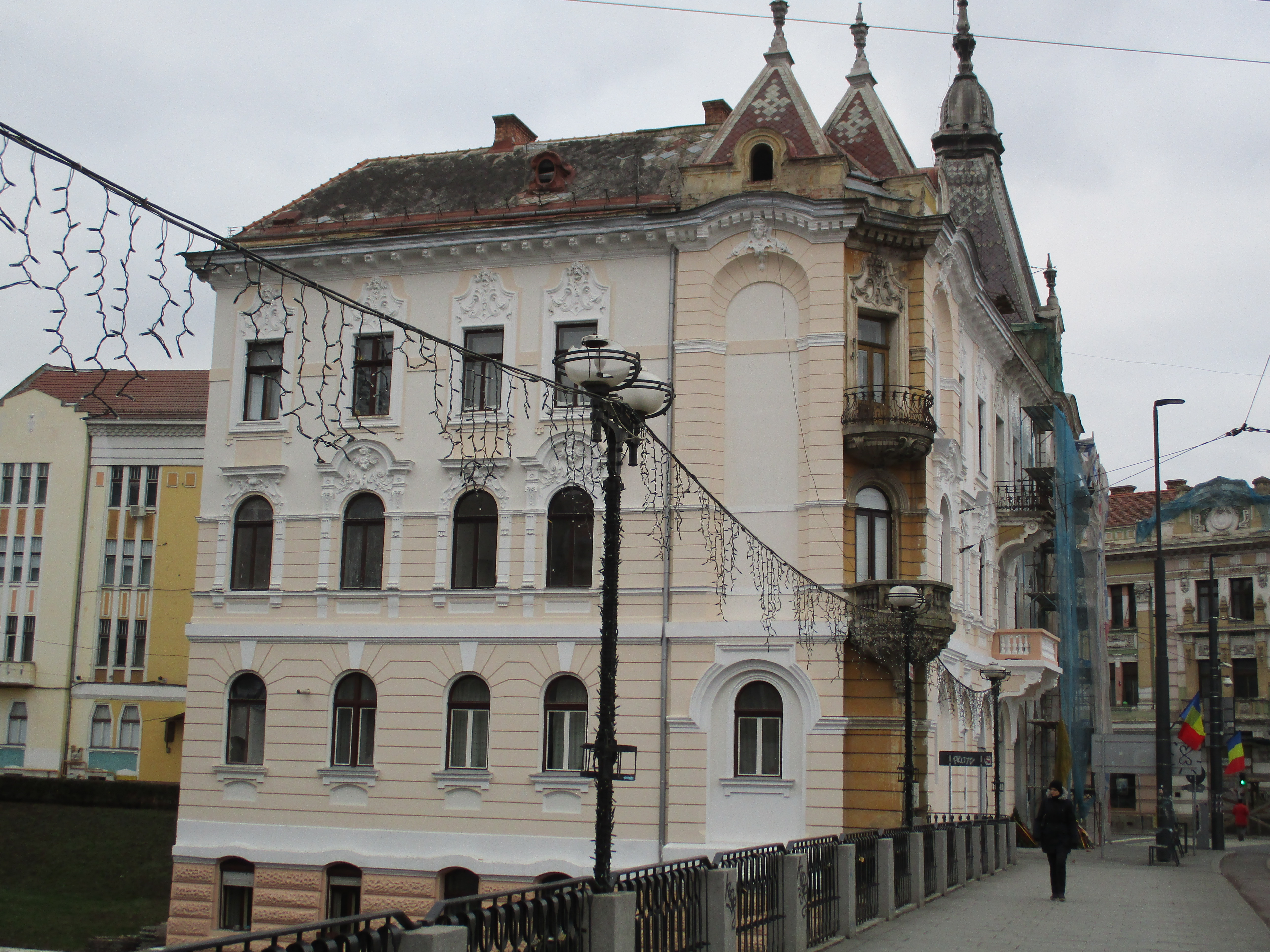 Bak Palace in Cluj (Horea Street)